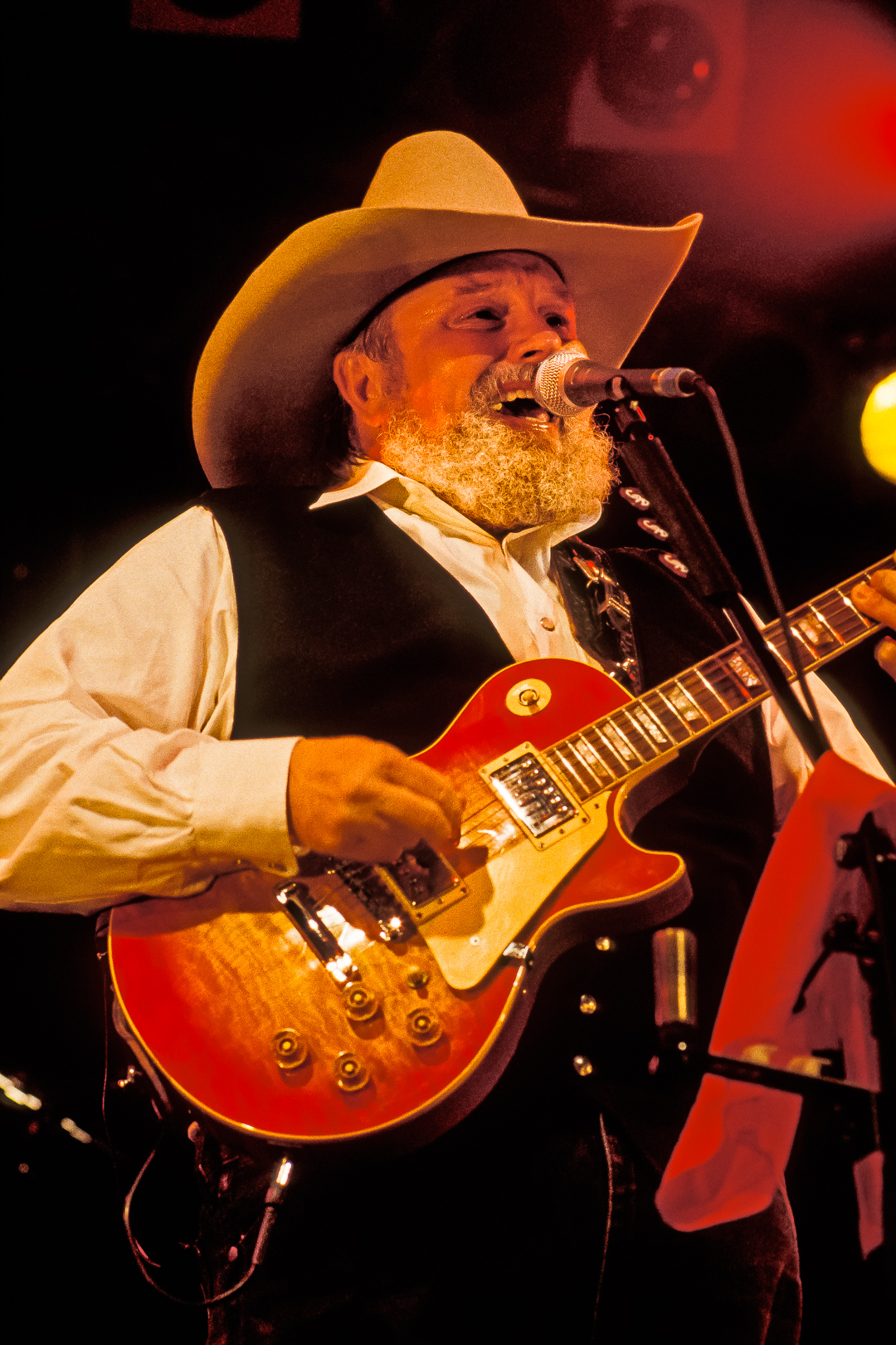 Charlie Daniels, Country Nights Disney, 1996